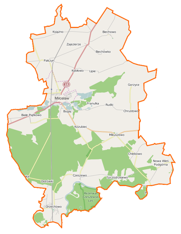 Map of Gmina Miłosław, Poland This map of Miłosław (gmina) was created from OpenStreetMap project data, collected by the community. This map may be incomplete, and may contain errors. Don't rely solely on it for navigation.